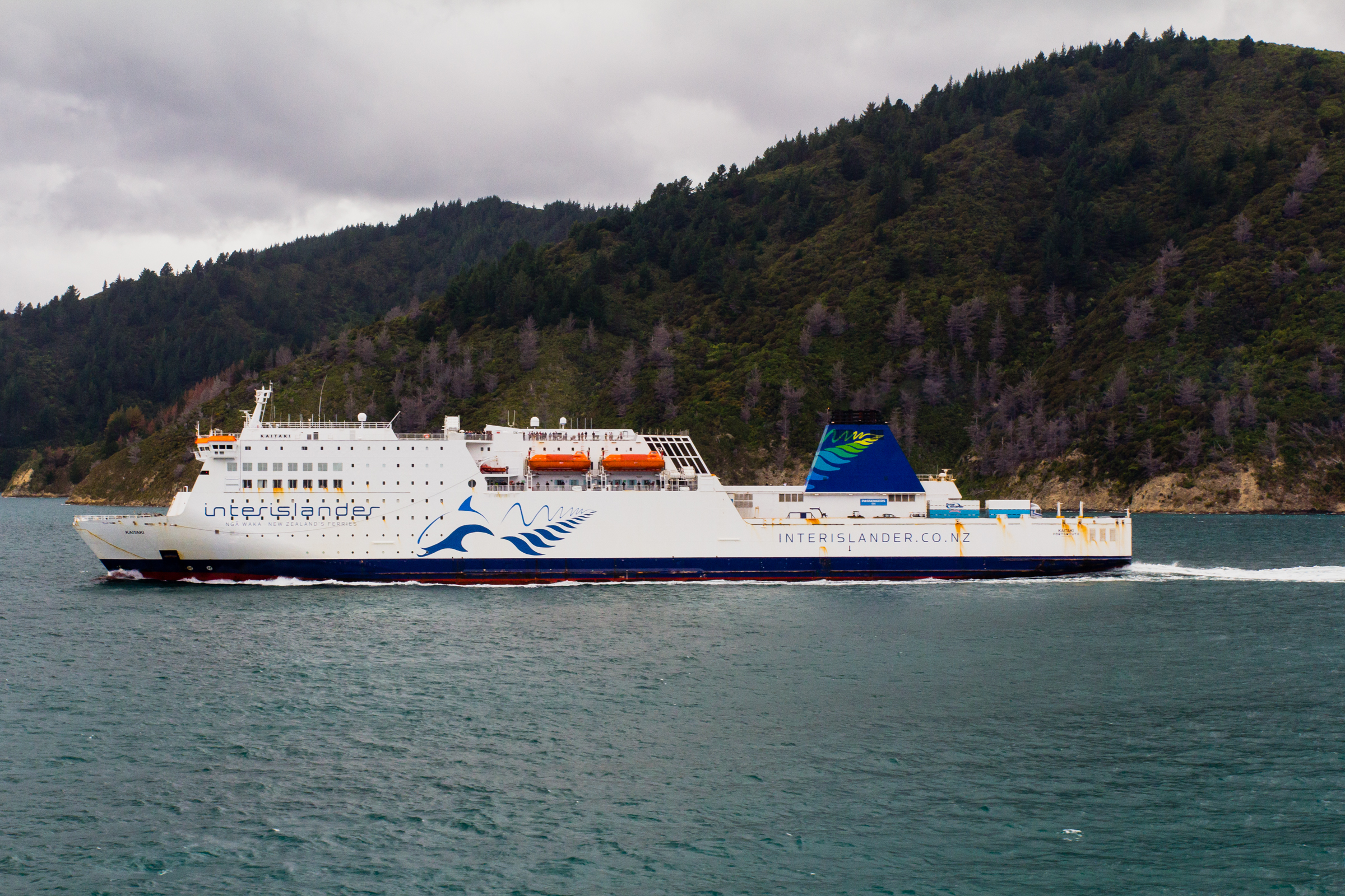 MV Kaitaki on its way from Wellington to Picton. Taken from the MV Aratere going in the opposite direction.